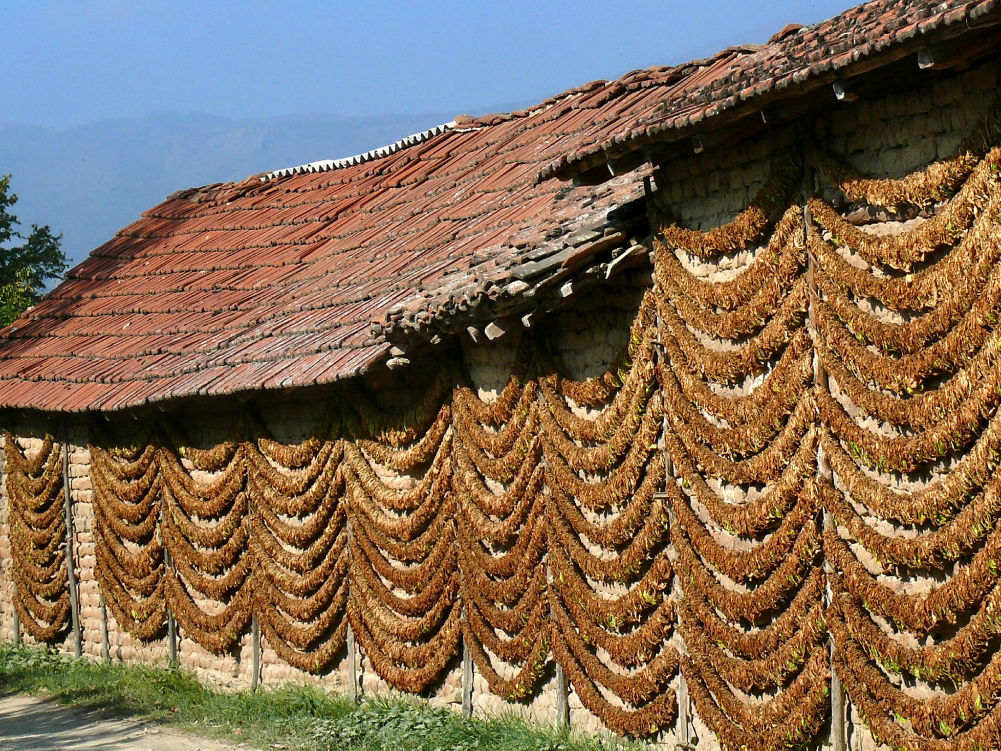 Tobacco Drying in Kostinci. Prilep